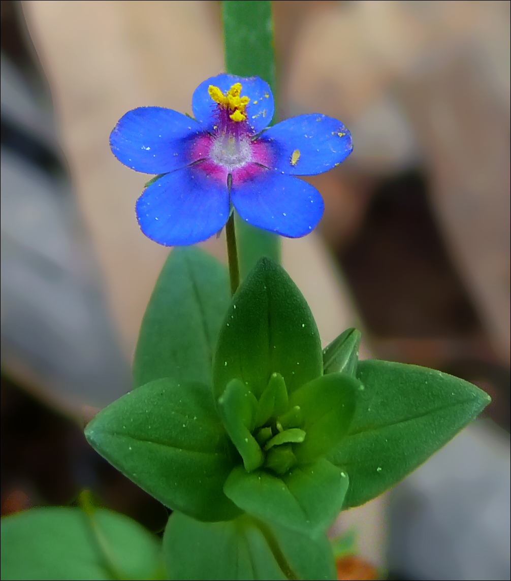 Anagallis arvensis, Horashim Forest, Israel, 2014